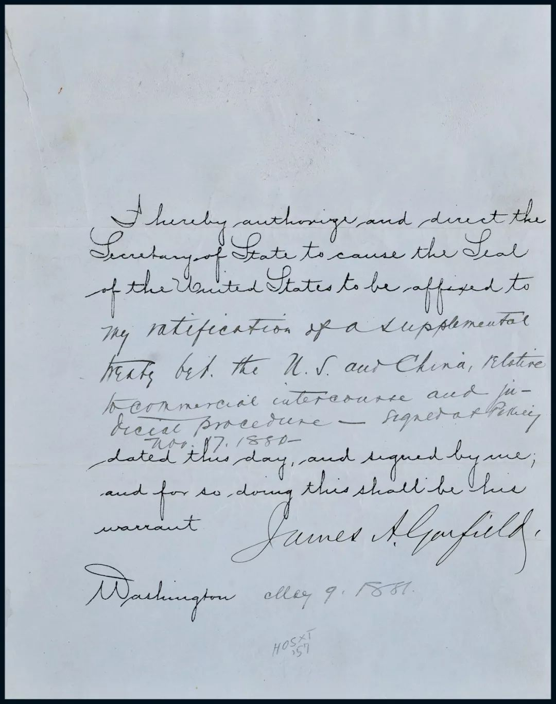 United States President James Garfield approved Angell Treaty of 1880 limiting Chinese immigration to the US. The text reads:"I hereby authorize and direct the Secretary of State to cause the Seal of the United States to be affixed to my ratification of a treaty relating to Chinese immigration into the U.S. signed at Peking Nov. 17, 1880... JAMES A. GARFIELD (Signed), Washington May 9,1881. See Approving Treaty Limiting Chinese Immigration - A Rarity from James Garfield's Brief Presidency